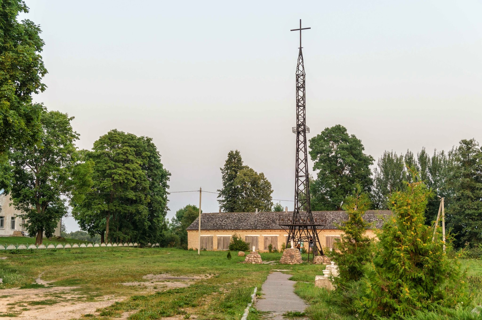 A models of the Eiffel Tower, Paryž village